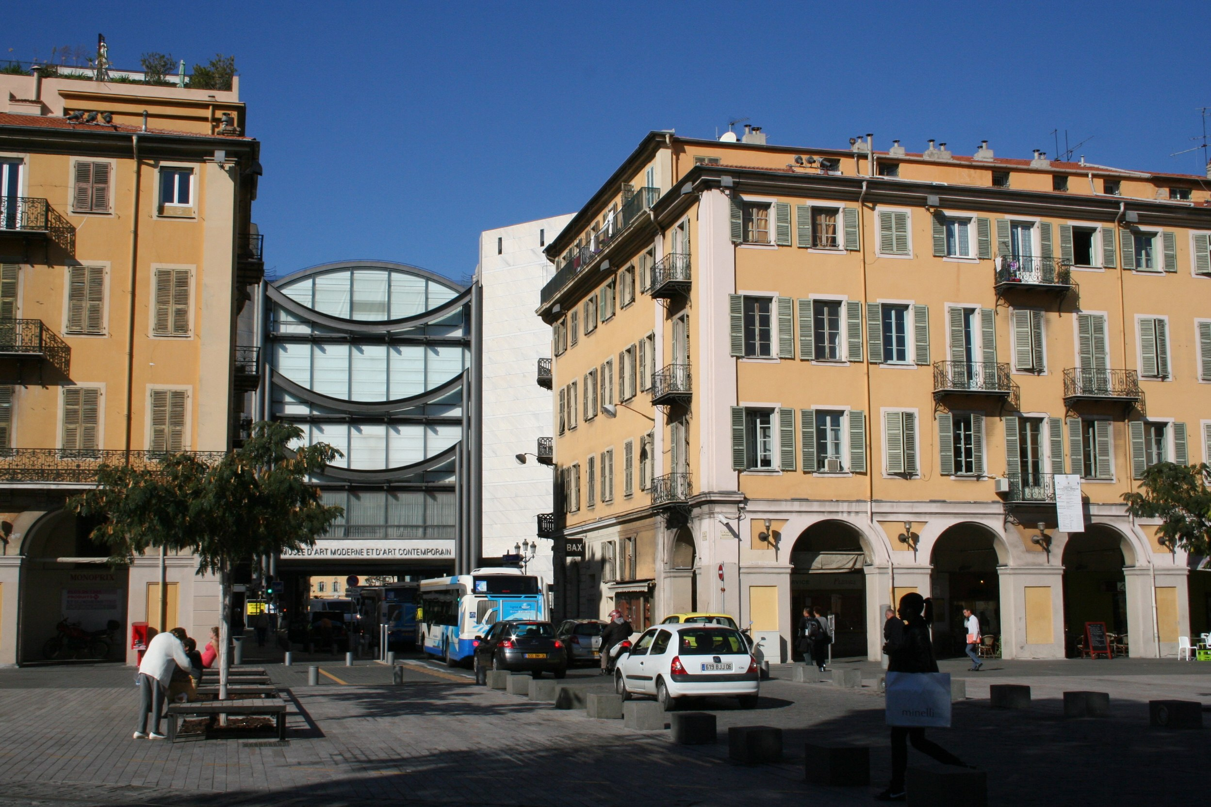 View of place Garibaldi's west side (Garibaldi square) and Musée d'art moderne et d'art comtemporain (MAMAC) in Nice, France.